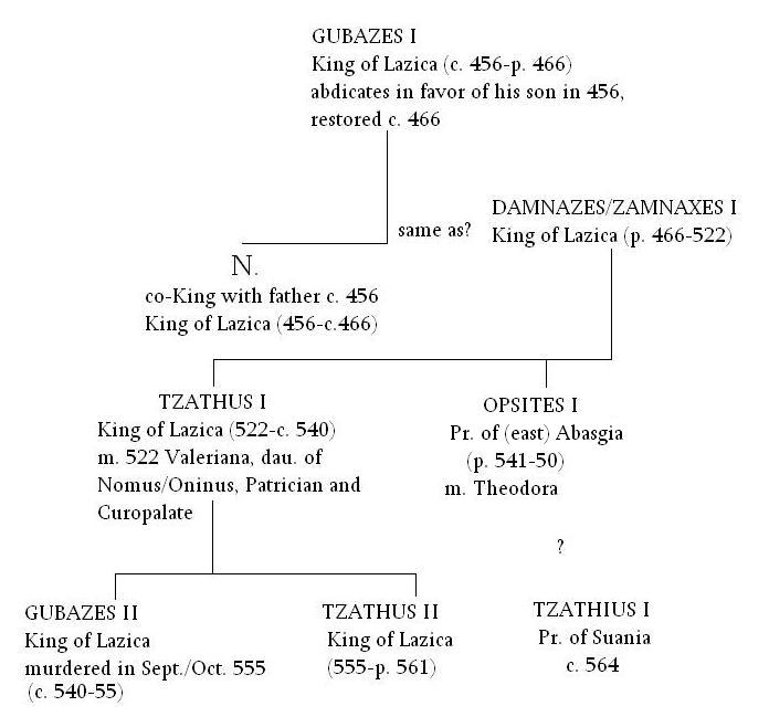 The stemma of the kings of Lazica according to Toumanoff, Cyril. "How Many Kings Named Opsites?", p. 82. A Tribute to John Insley Coddington on the occasion of the fortieth anniversary of the American Society of Genealogists. Association for the Promotion of Scholarship in Genealogy, 1980